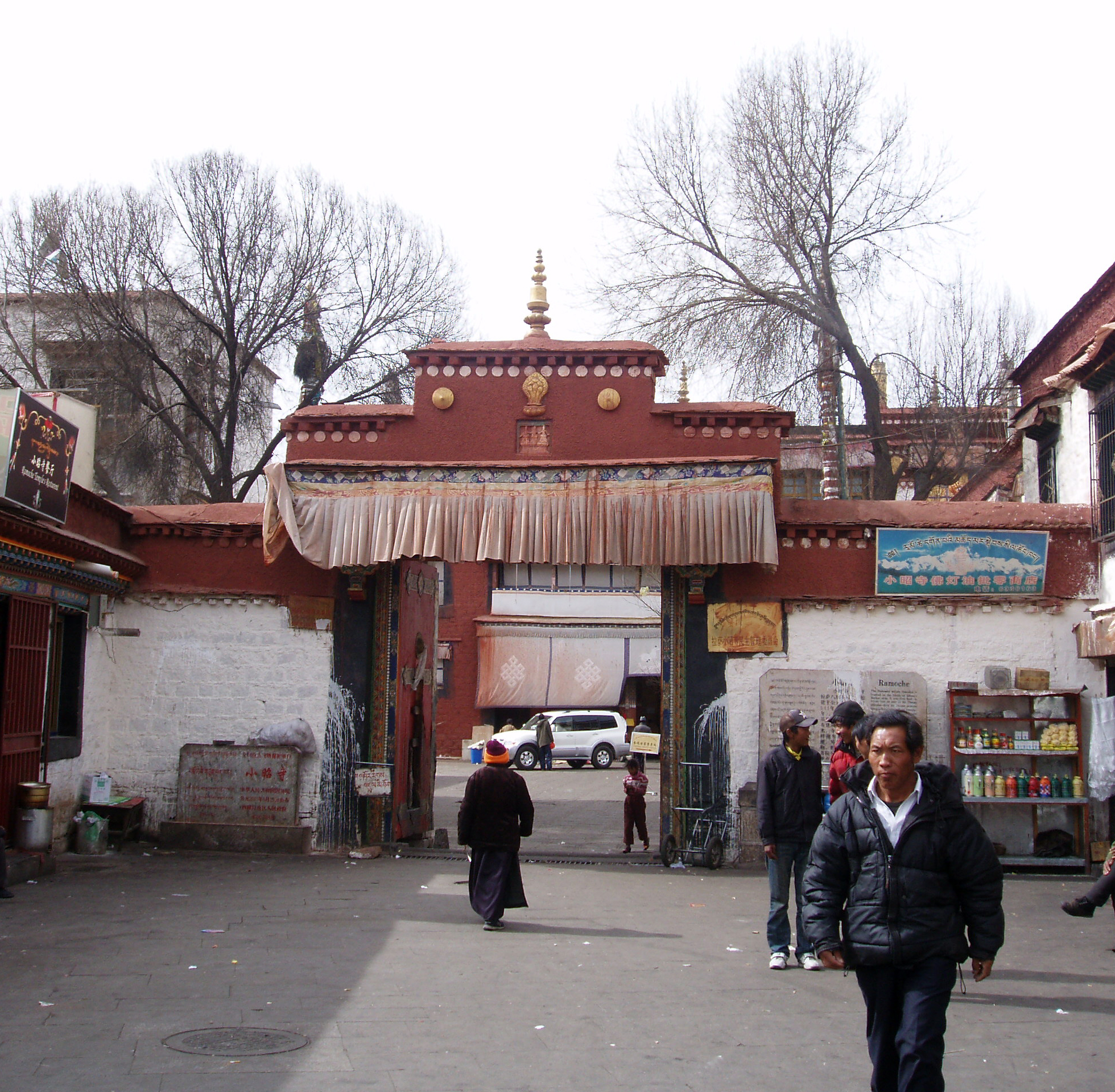 Ramoche temple in Lhasa